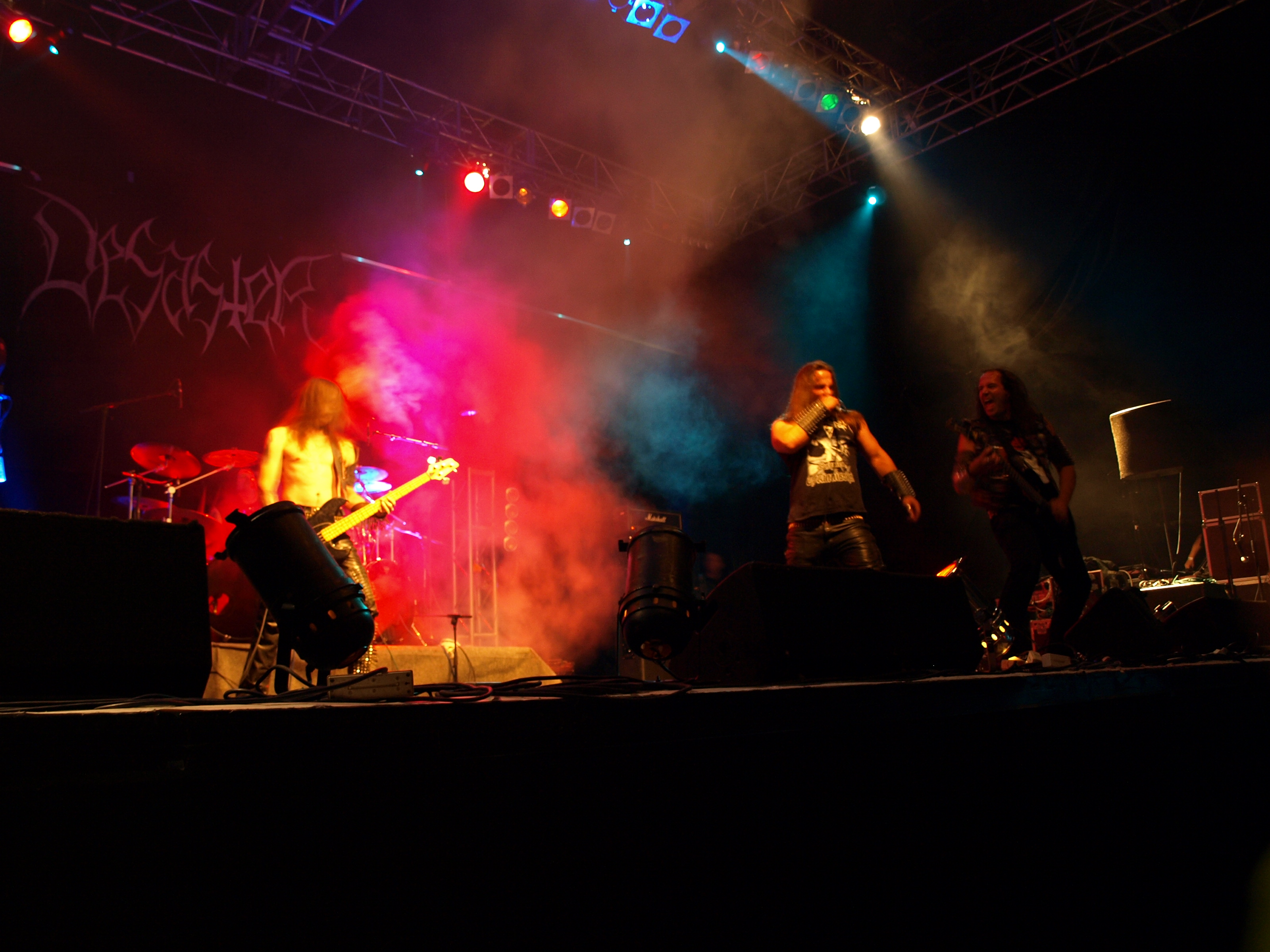 German thrash/black metal band Desaster live at Jalometalli 2008 in Oulu.